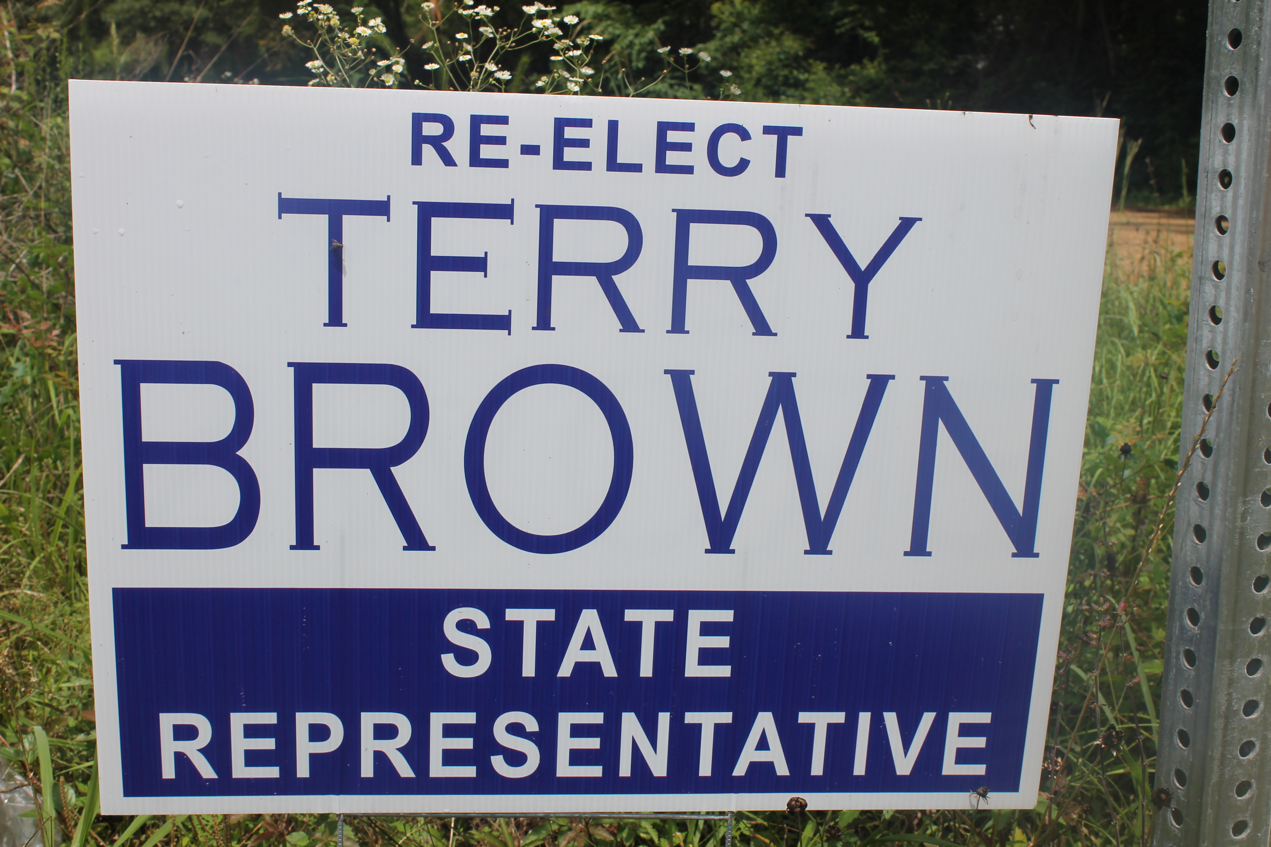 Campaign sign for Terry Brown, state representative from Colfax, LA